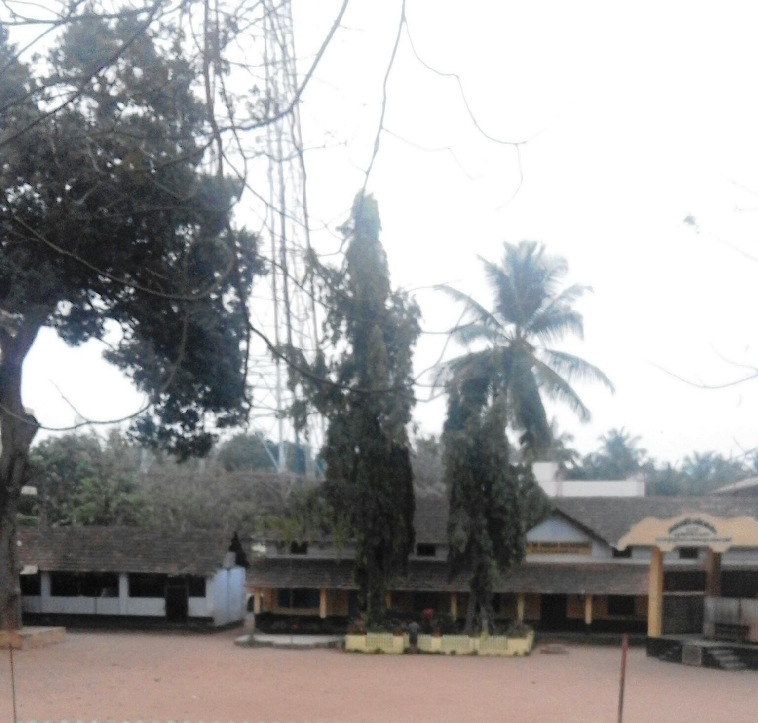 Parappanangadi, Malappuram District, Kerala province, India